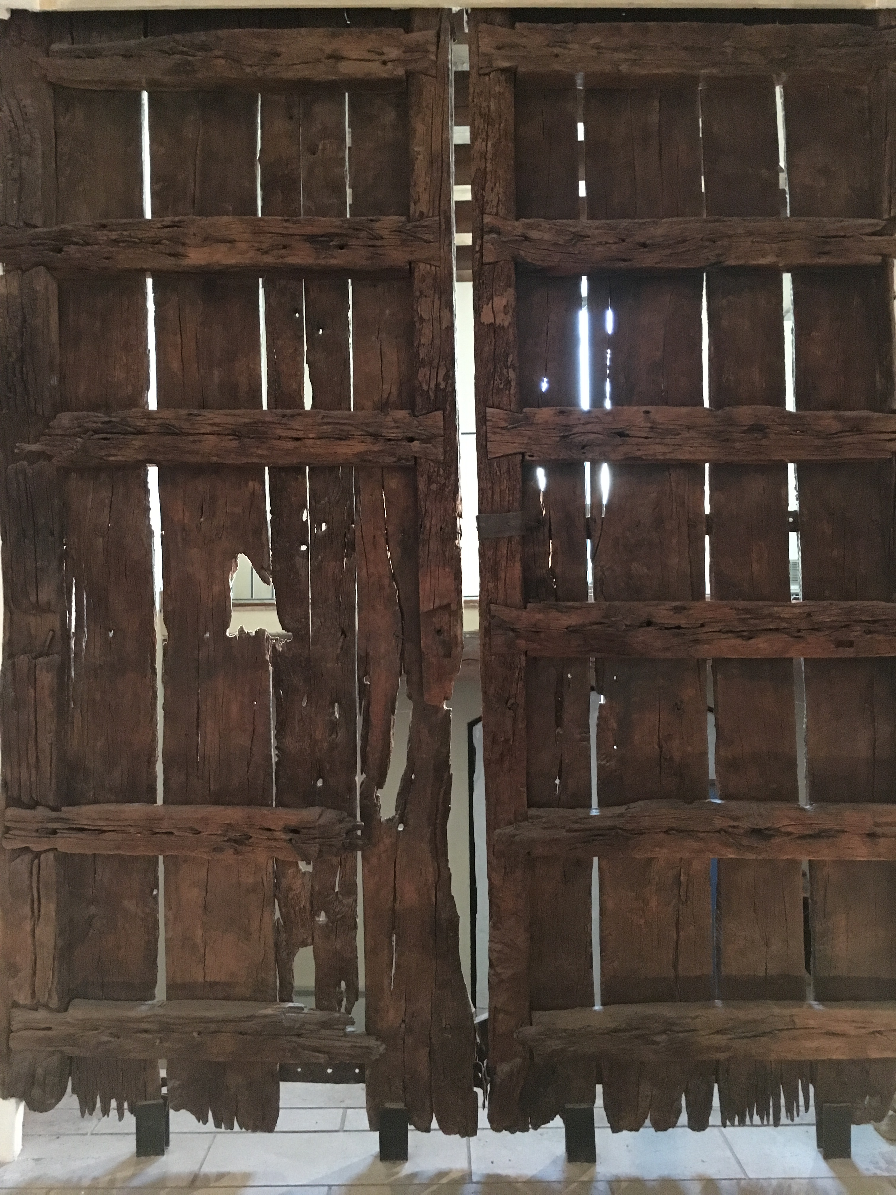 Oratorio dei Bianchi, wooden door